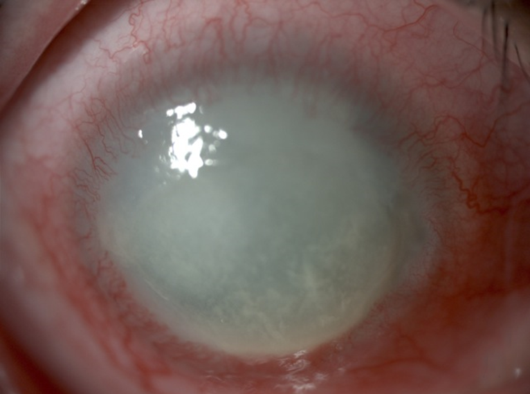 Figure 1A of published paper. Corneal melting and vascularization in a patient with Acanthamoeba keratitis